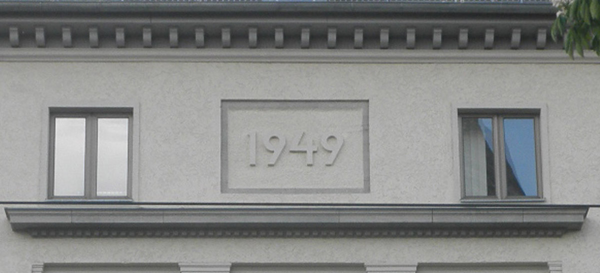 Table 1949 from Landespolizeidirektion Erfurt